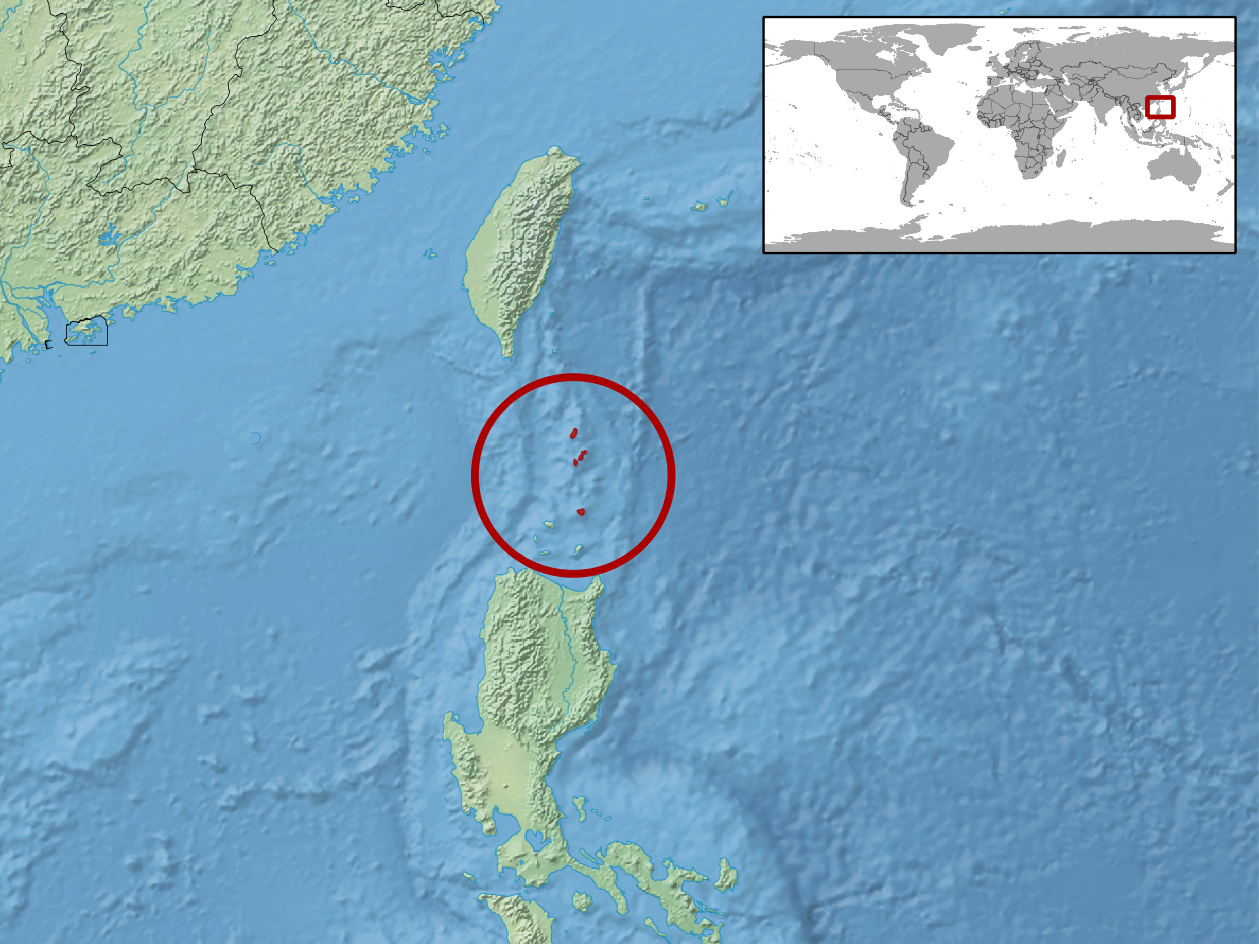 geographic distribution of Gekko porosus (Native: Philippines)